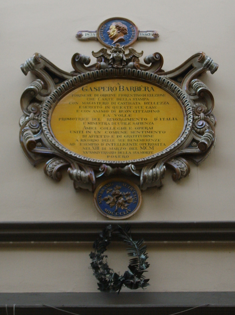 Via_Faenza in Florence, plaque for publisher Gaspero Barbèra (13 March 1900).